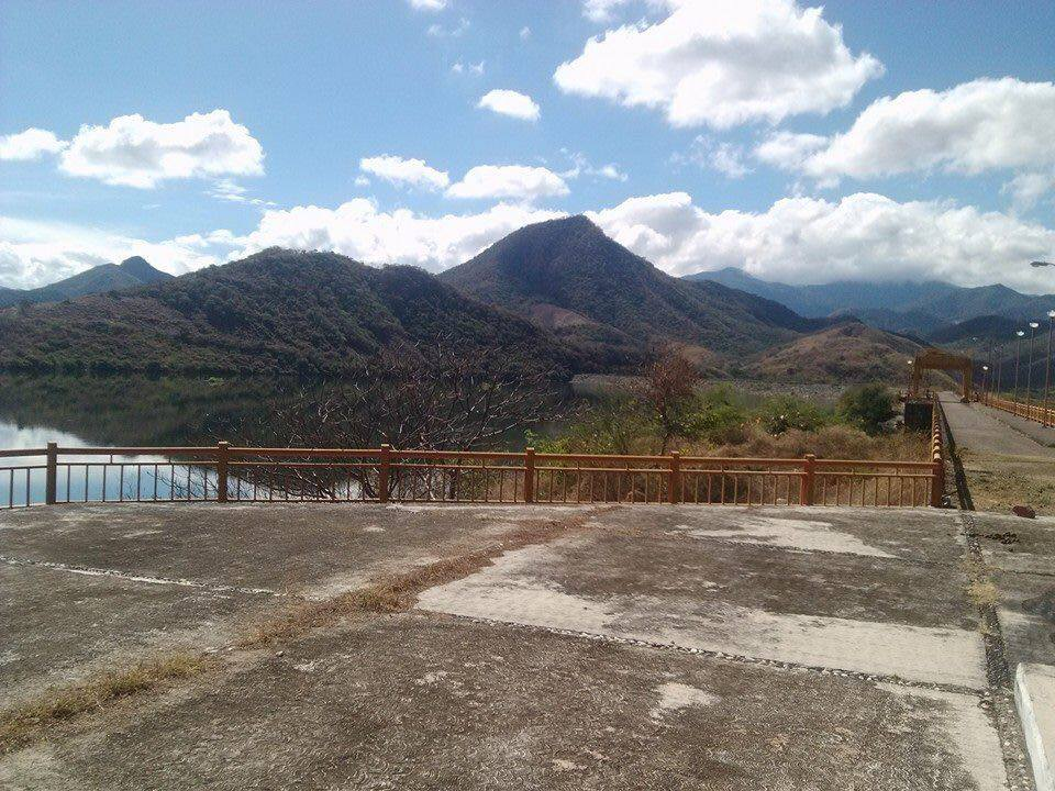 Esta obra esta ubicada en la inmediaciones del San pedro y Garzas, municipio de Ajuchitlan.